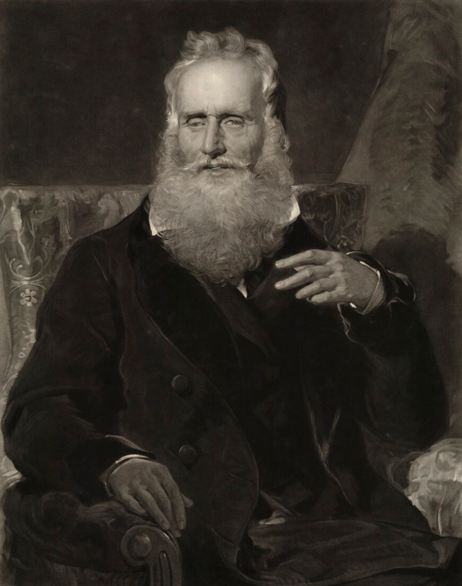 James Holman by John Richardson Jackson, published by Henry Squire & Co, after John Prescott Knight mezzotint, published 23 May 1849, National Portrait Gallery, London